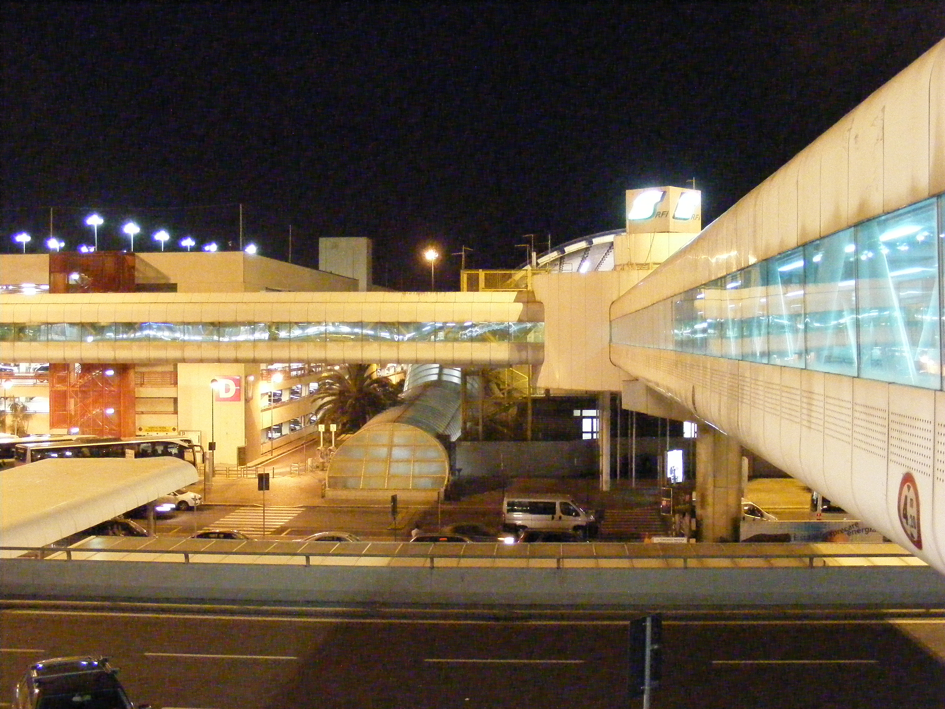 International Airport Roma-Fiumicino - Skyway to the train station.